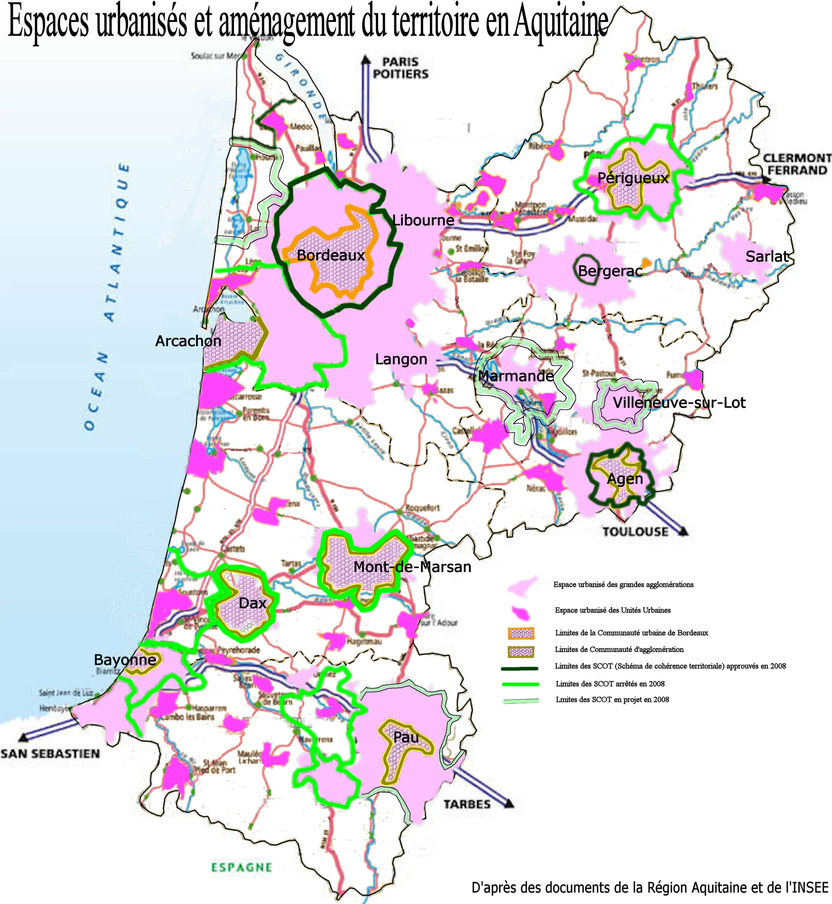 Figure linking urban areas and urban policies in Aquitaine about 2008